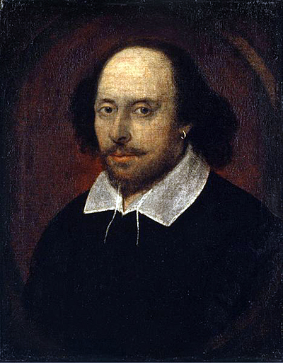 The famous portrait named after its owner, James Brydges, 1st Duke of Chandos